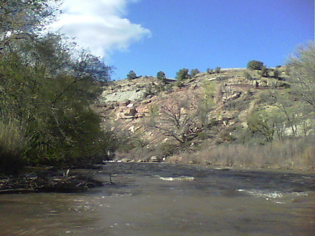 the San Miguel River at Naturita, Colorado, ~ 500 cfs